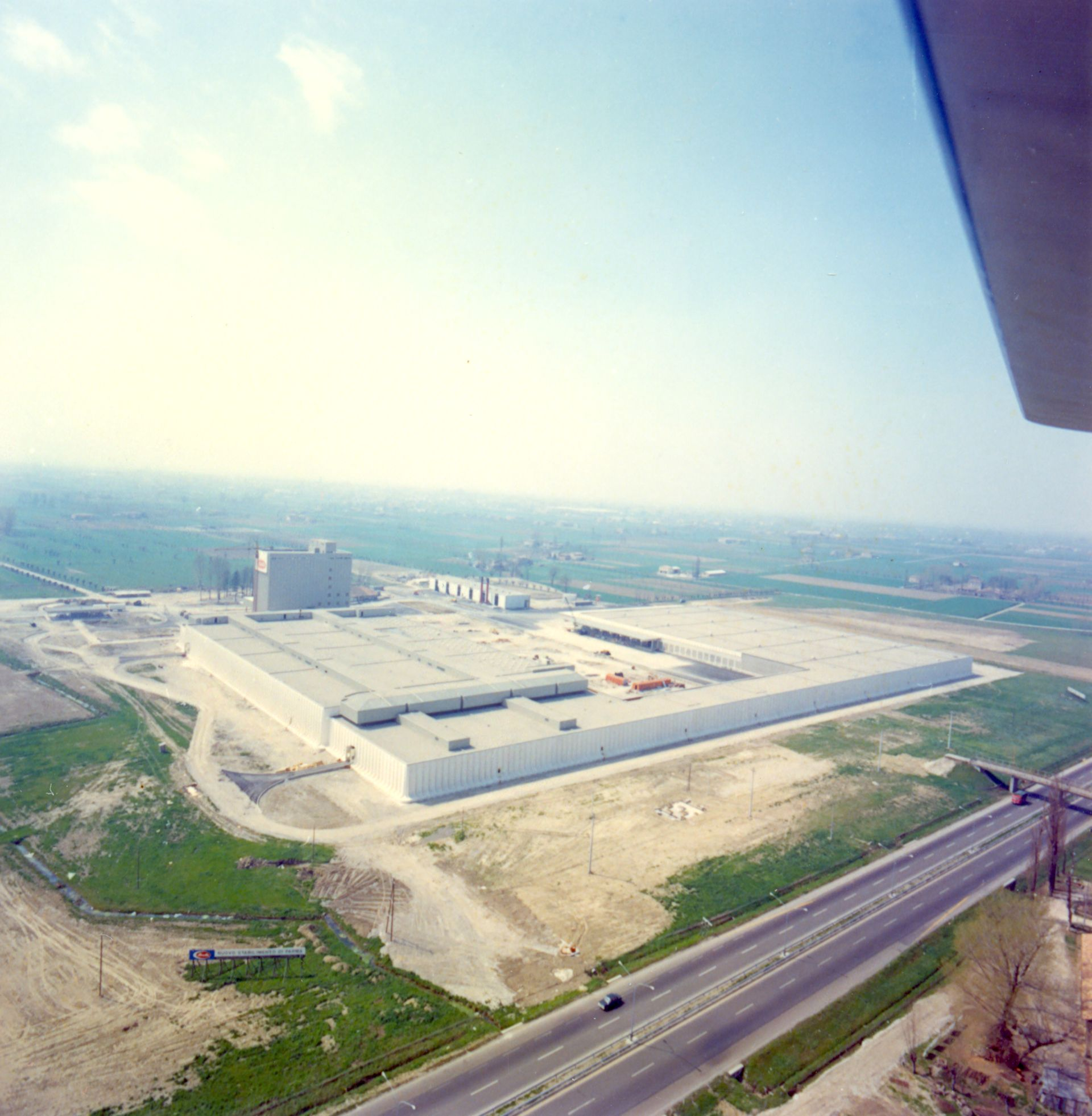 Fotografia aerea dello stabilimento Barilla di Pedrignano al termine dei lavori nel 1970